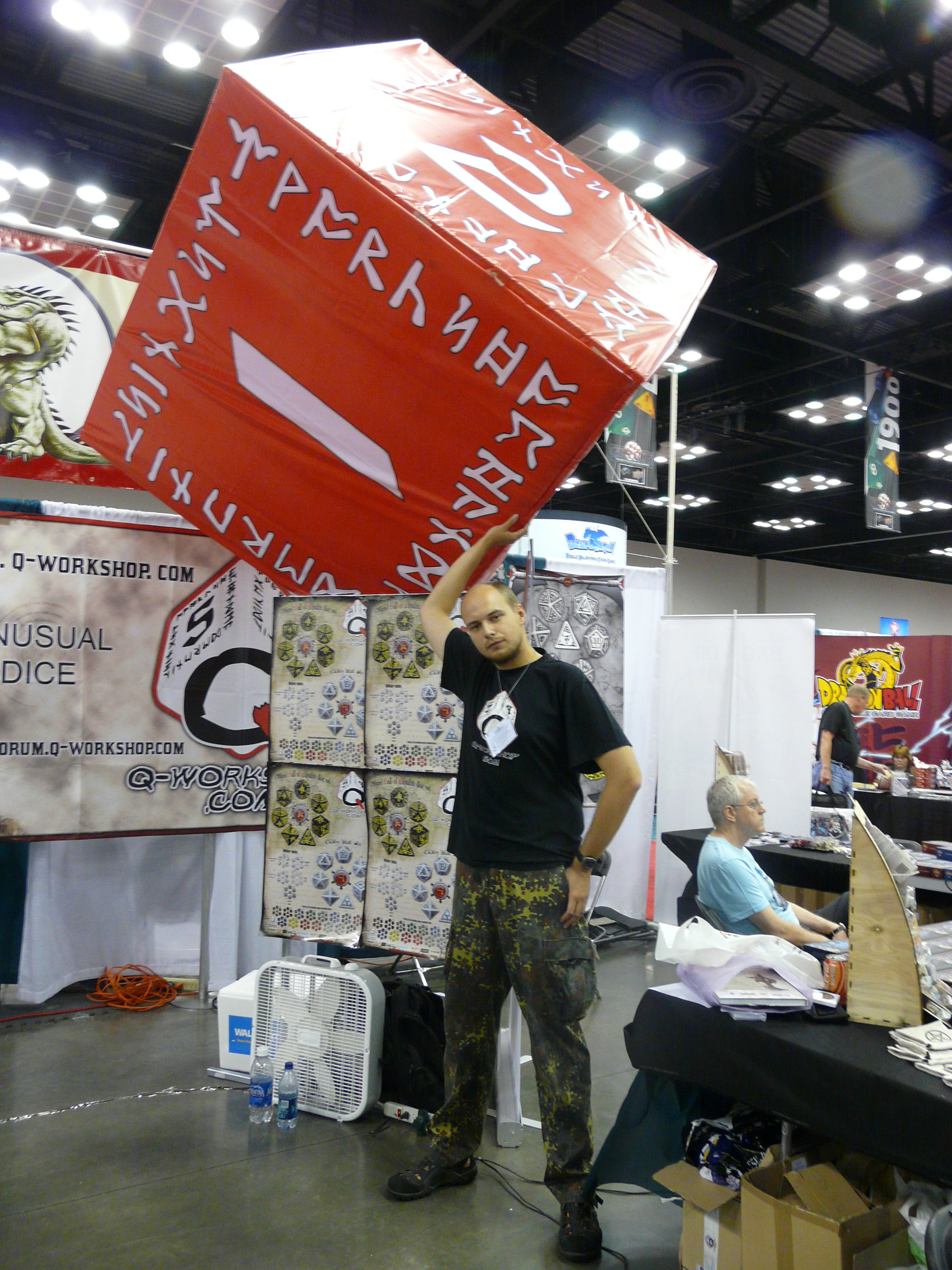 Picture of Gen Con Indy 2008 in Indianapolis, Indiana, USA.